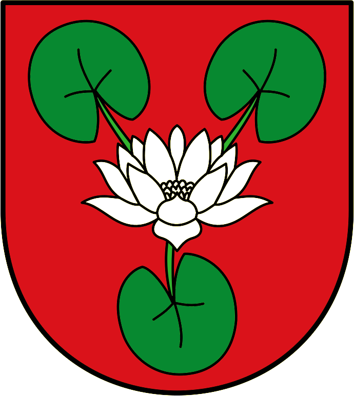 Coat of arms of Ebikon (Canton of Lucern)